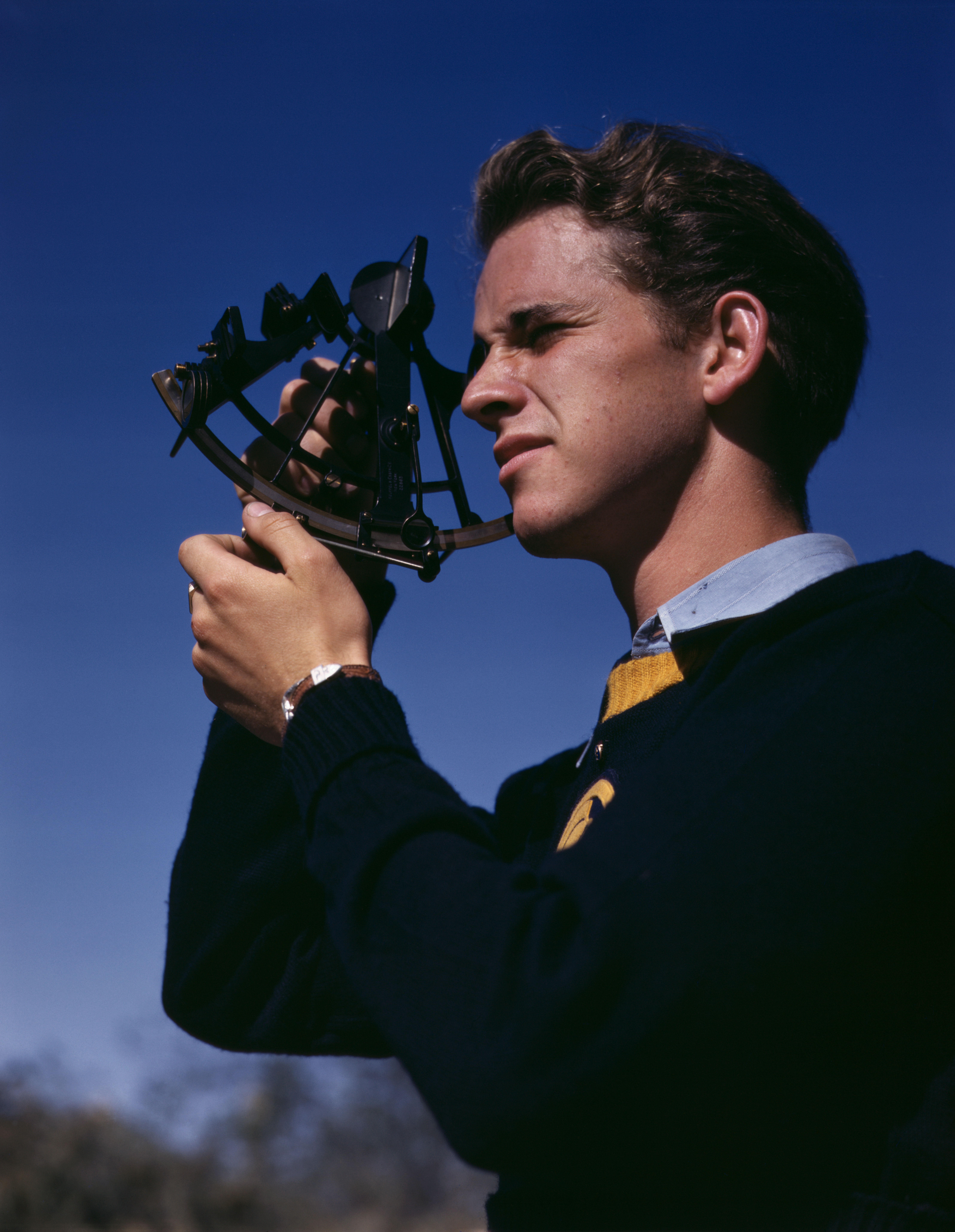 Boys trained in the fundamentals of navigation may become technicians in the armed service, Los Angeles, Calif. Thomas Graham, a member of the Victory Corps at Polytechnic High School, is learning to use a sextant to determine longitude and latitude.